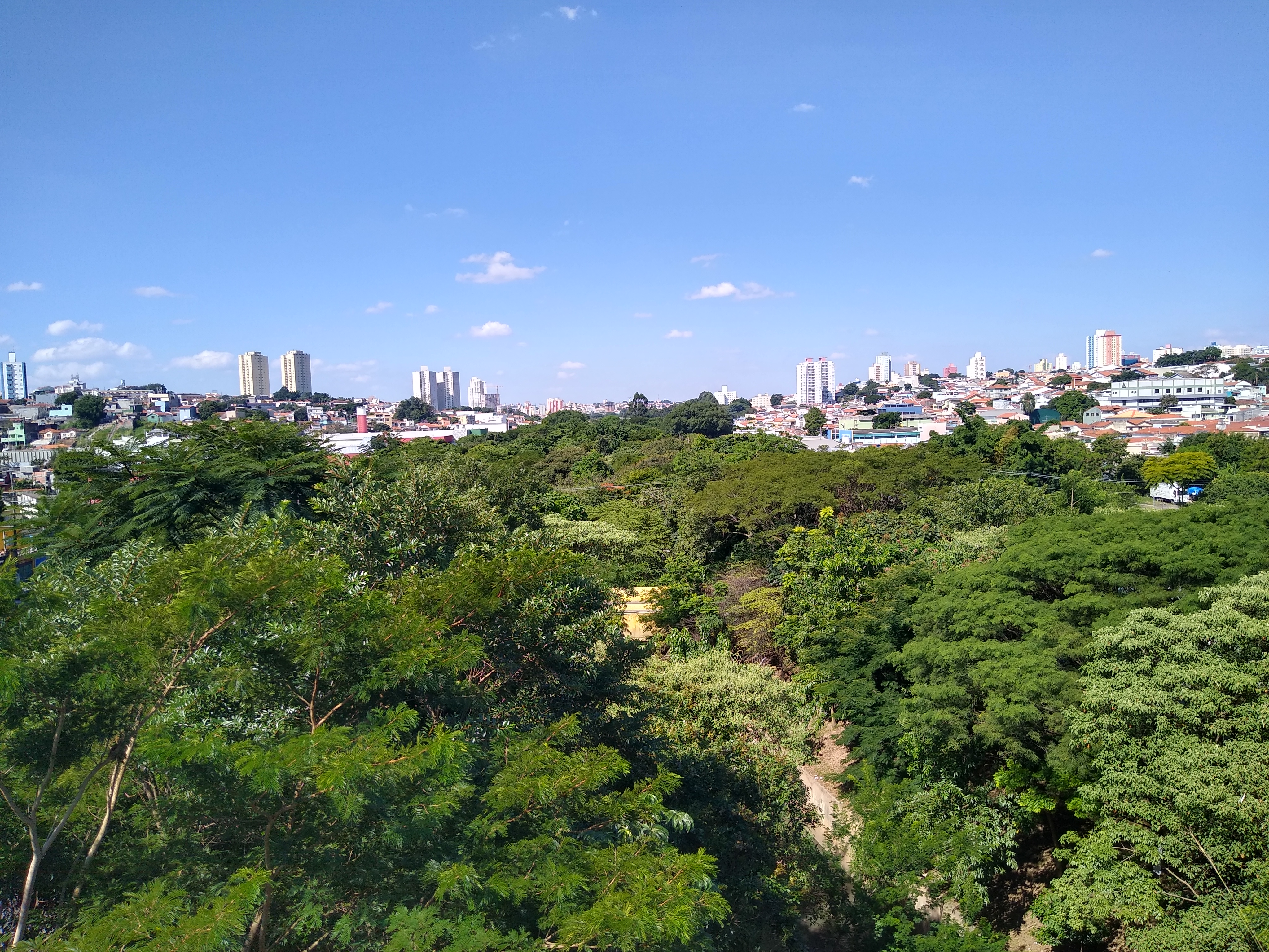 Tiquatira